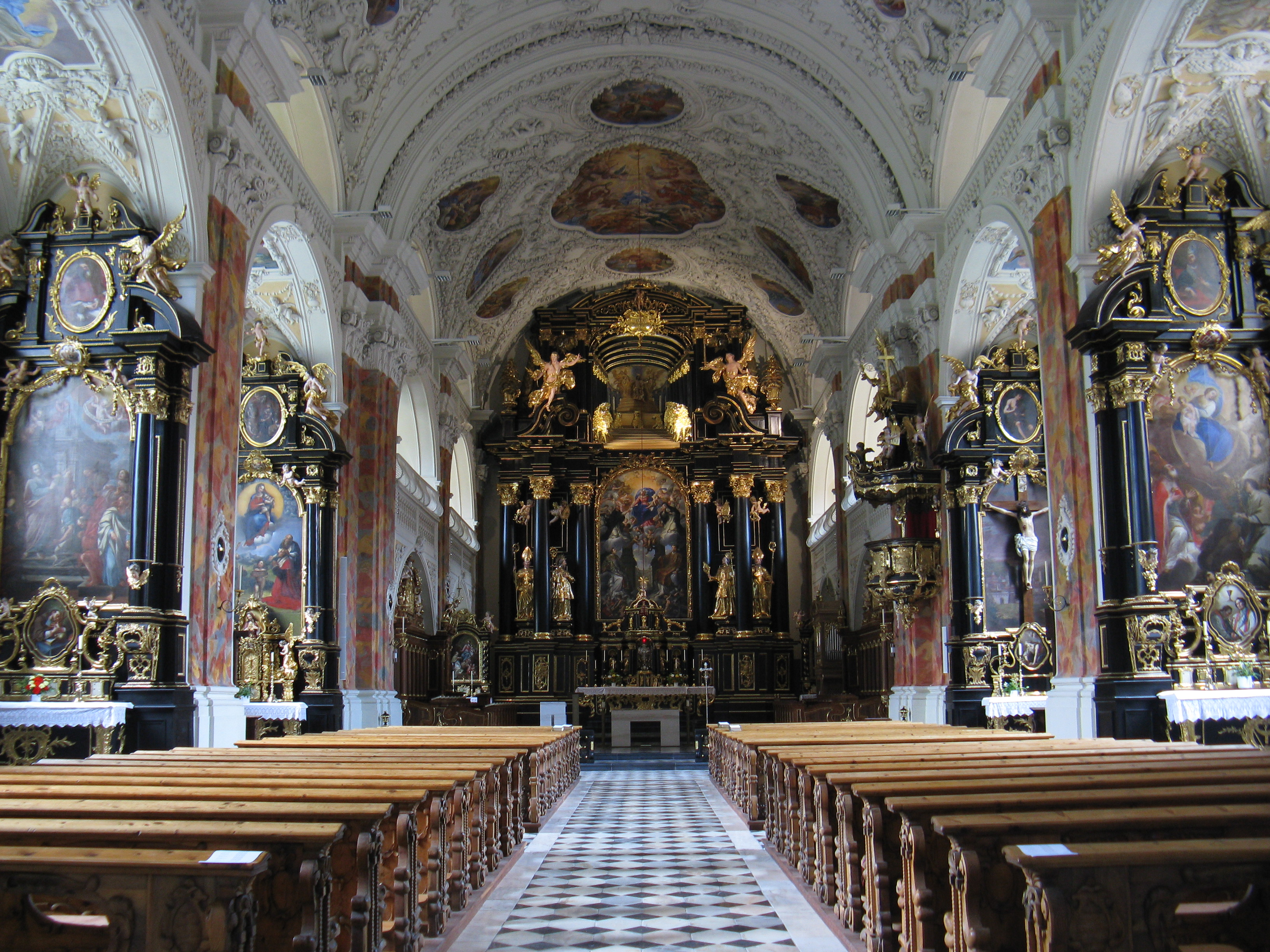 Innsbruck, Austria, Wilten abbey, interior of abbey church